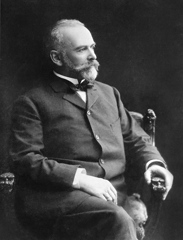 Alexander Veniaminovich (Alexander Benjamin) Bari, 1847-1913, US-born businessman most active in Moscow, Russia in 1890s-1913. Employer/client to engineer Vladimir Shukhov.